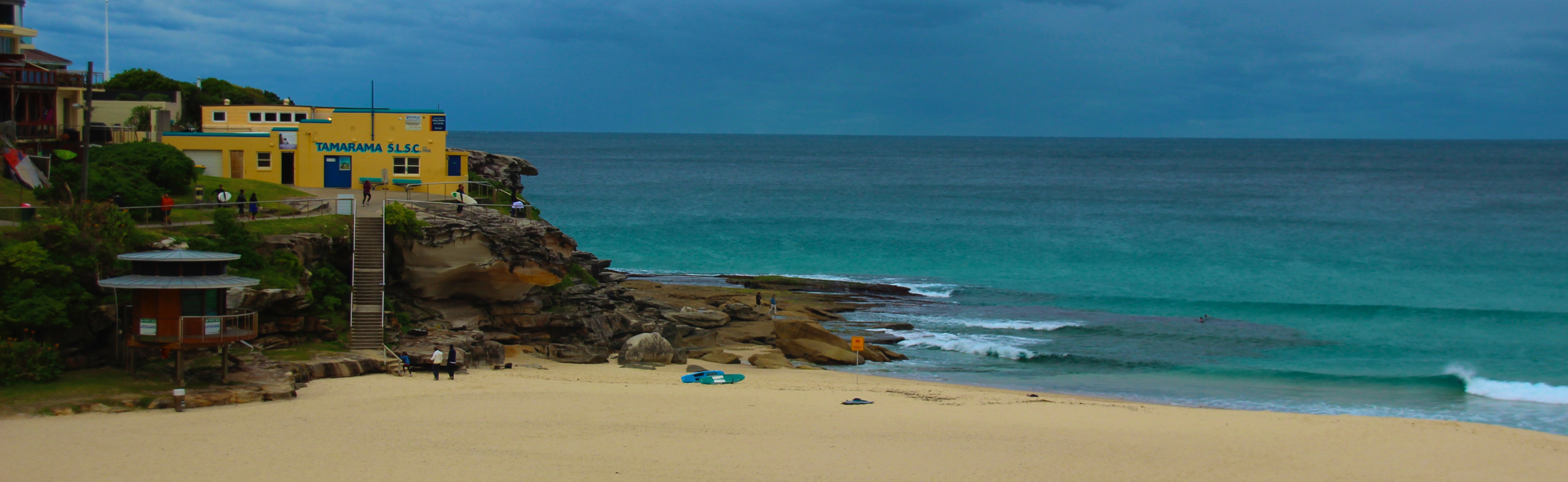 Photo of Tamarama beach showing the Surf Lifesaving club house